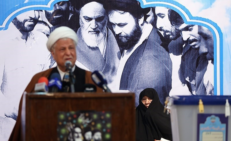 Hashemi Rafsanjani and his wife, Effat Marashi